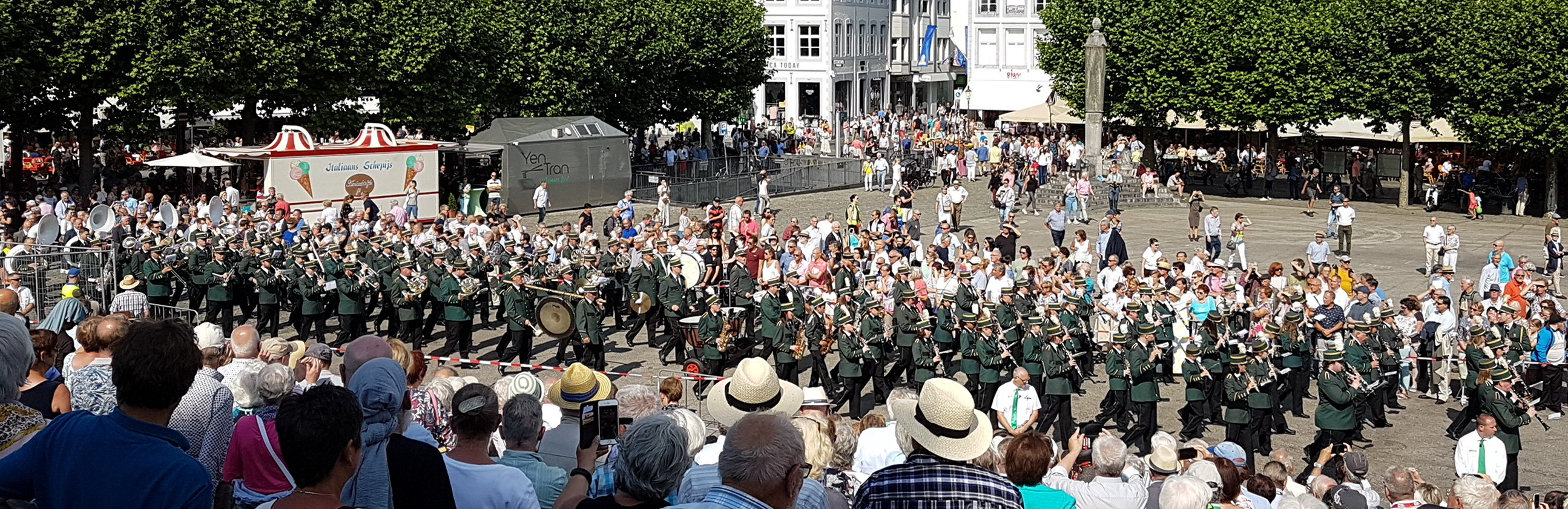 View of a historic religious procession during the 2018 Heiligdomsvaart ("Relics Pilgrimage") in Maastricht, Netherlands. The history of this seven-yearly catholic pilgrimage goes back to the Middle Ages. The first 'modern' version took place in 1874. On both Sundays of the 10-day festival, a procession is held in which the main relics of the town and other devotional objects are exhibited. This photo was taken from the spectator stand in Vrijthof square at the end of the (second) procession on 3 June 2018. The marching band that closes the procession is Harmonie Sint Petrus en Paulus from the Maastricht neighbourhood and parish of Wolder.